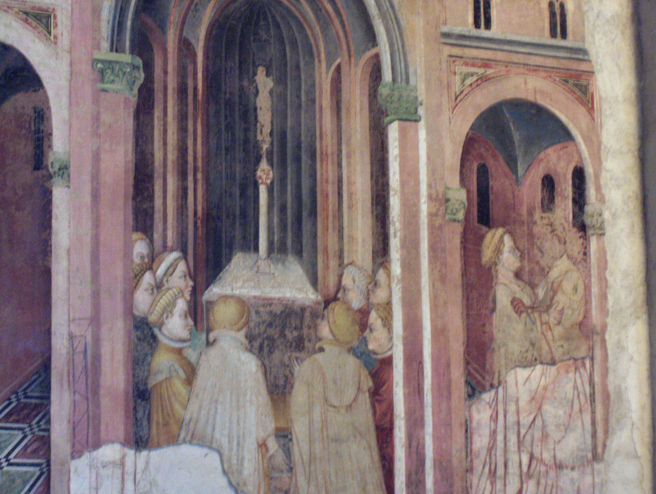 Fresco by Gentile da Fabriano, Loggia (the Founding of Role); Trinci Palace, Foligno, Italy